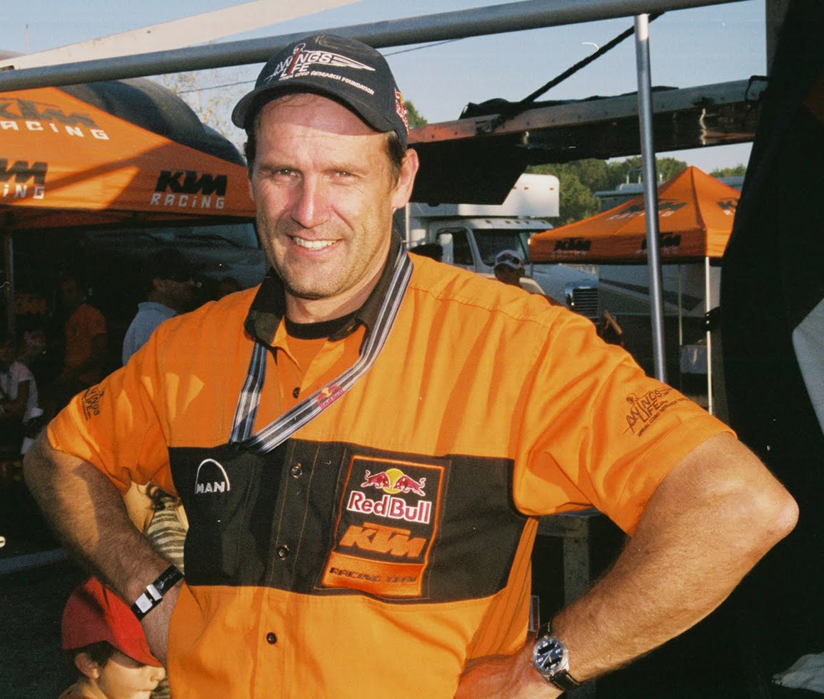 Heinz Kinigadner, 2 time World Champion and part owner of KTM/Red Bull. I met him at the MXoN and interviewed him as well. Being from Austria, he had no idea why the press and fans used to call him "Heinz 57" When I told him it was a popular steak sauce he cracked up laughing. 20 yeas after the fact he finally got the joke. :-) (original text)